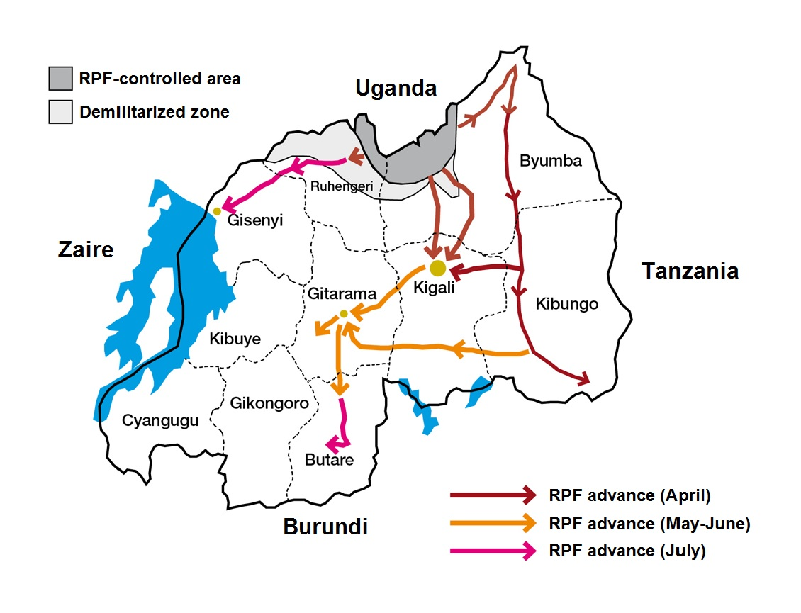 Map showing the advance of the RPF during the Rwandan Genocide of 1994. English language version of an existing German-language Commons file found here made by CosmicGirl based on info found in: Alan J. Kuperman: The limits of humanitarian intervention. Genocide in Rwanda, Brookings Institution Press, Washington, DC 2001, ISBN 0-8157-0086-5, Seite//page 43.